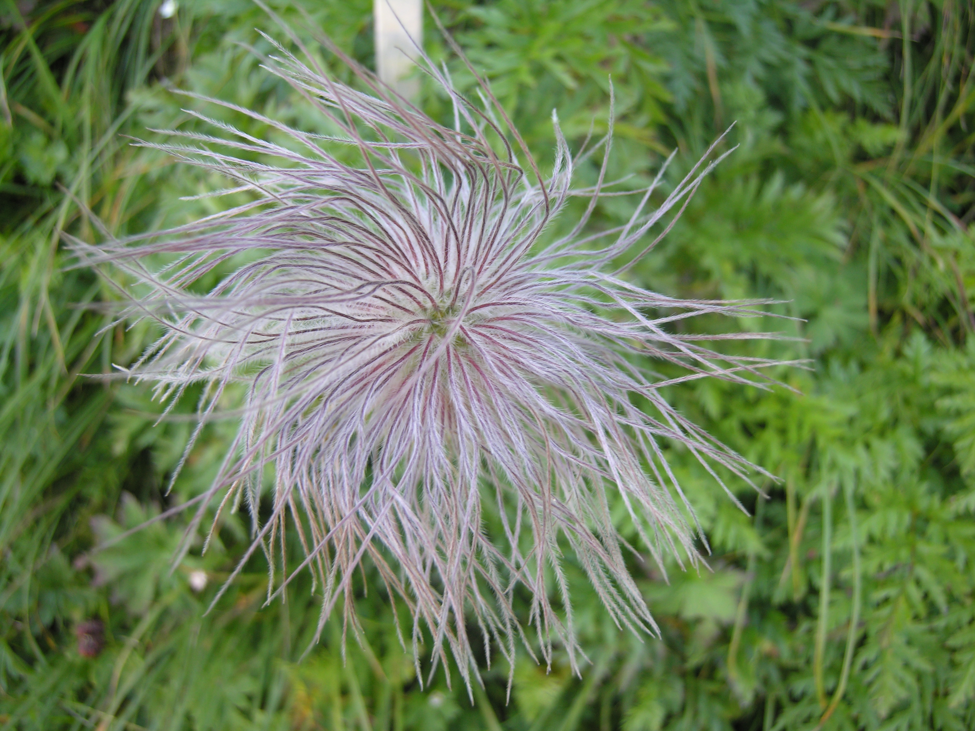 Pulsatilla alpina fruit. Swiss alps, Schynige platte.